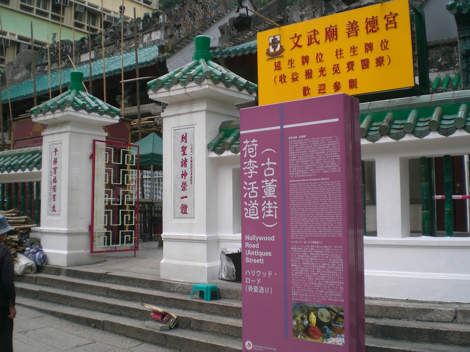 上環荷李活道東華三院文武廟